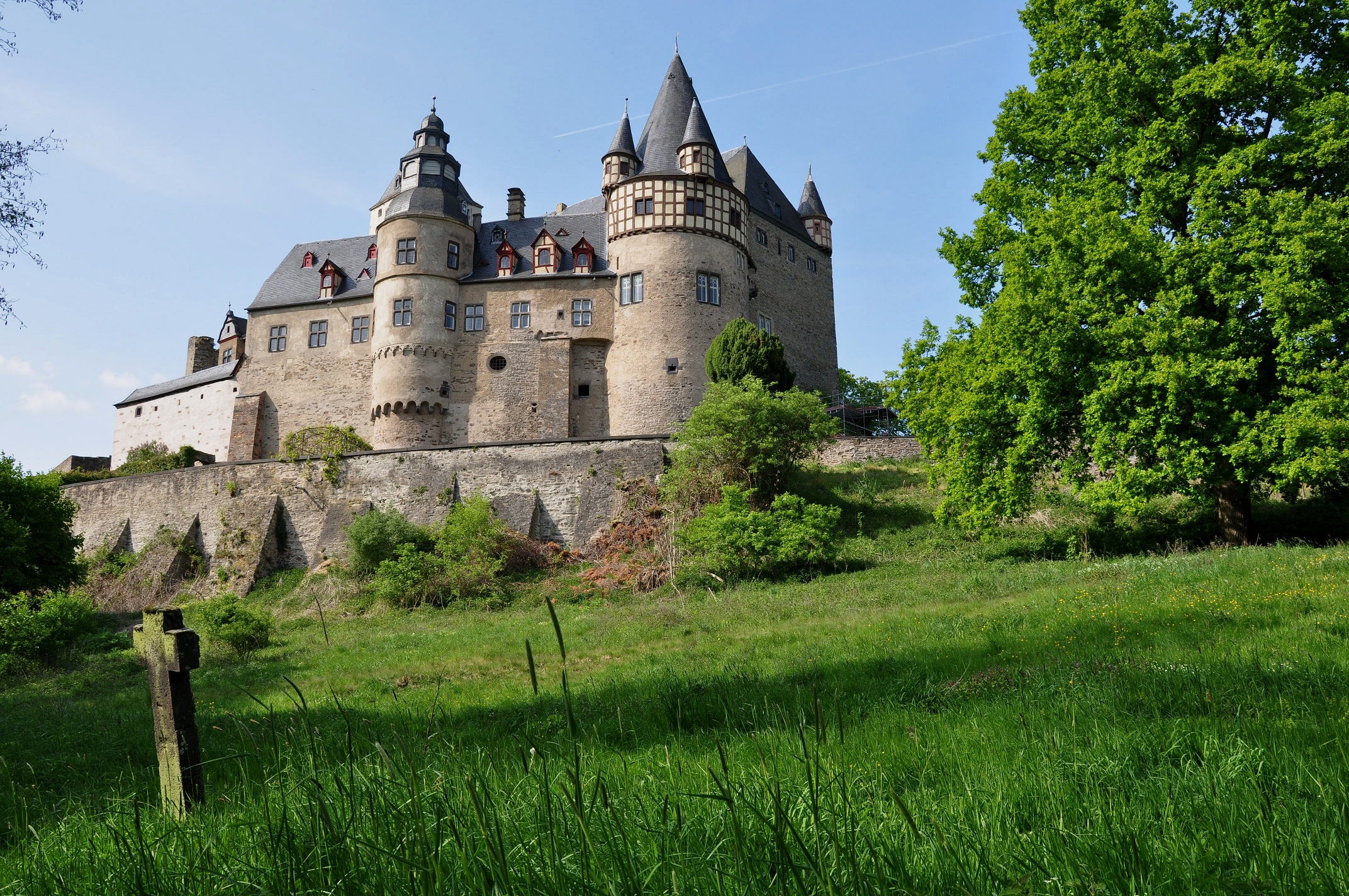 Bürresheim Castle (Sankt-Johann, near Mayen, Rhineland-Palatinate, Germany).